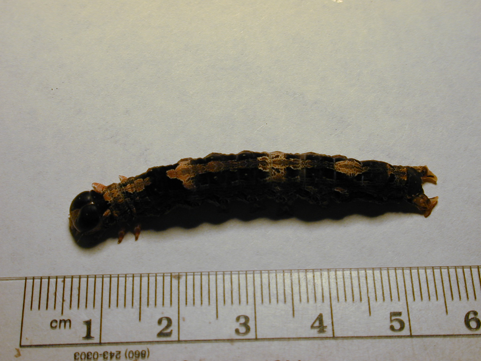 Acacia koaia (Scotorythra sp 020518 1 larva). Location: Maui, Puu o Kali